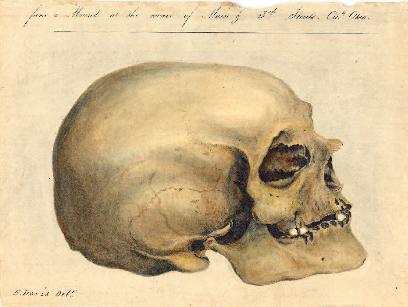 Lithograph from Crania Americana by Samuel George Morton